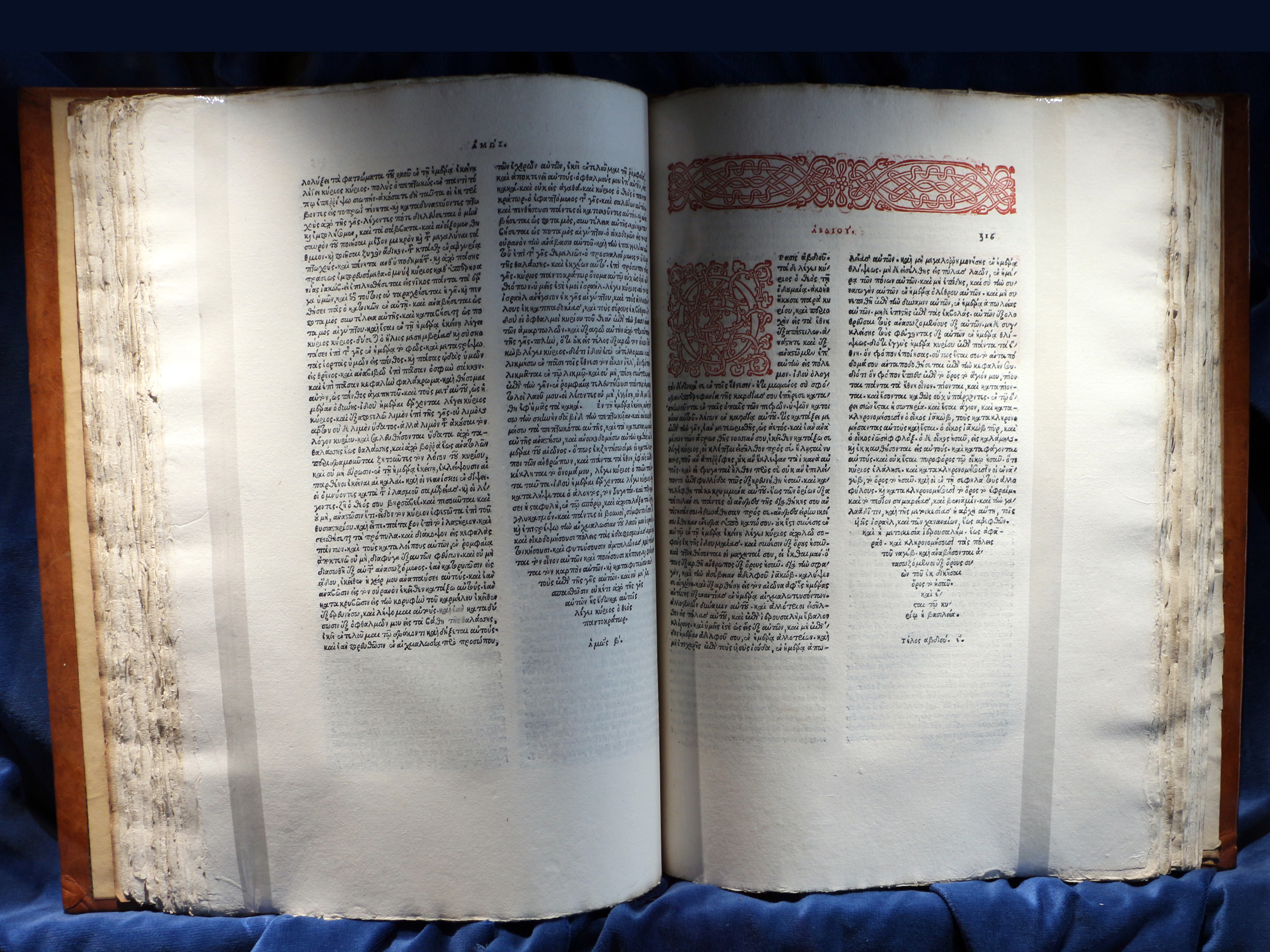 Biblioteca Medicea Laurenziana